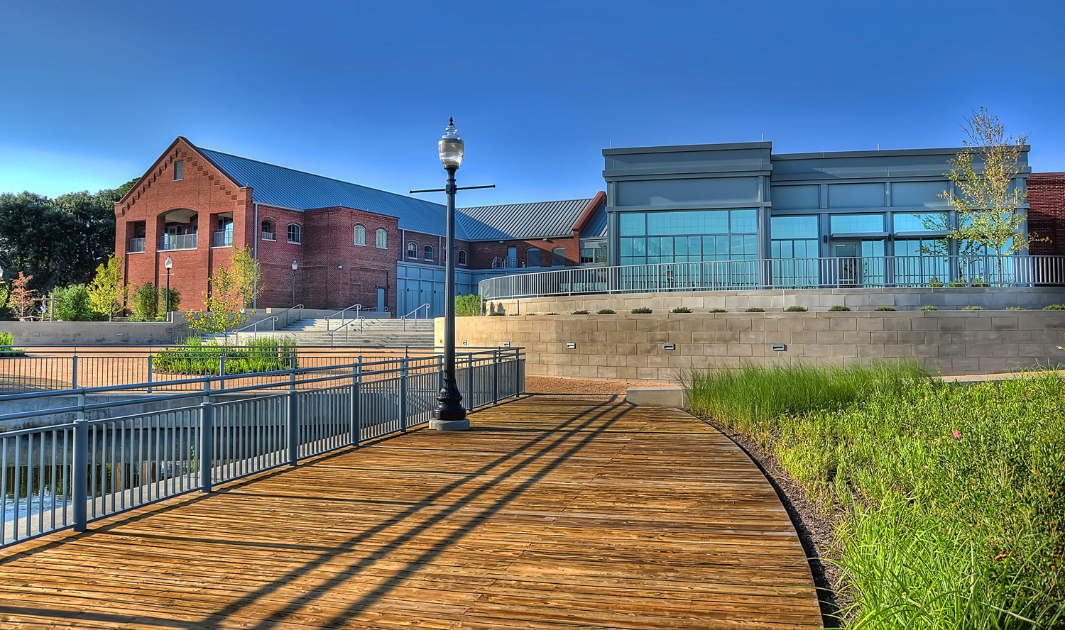 NC History Center (Photo Provided by The Uprooted Photographer)